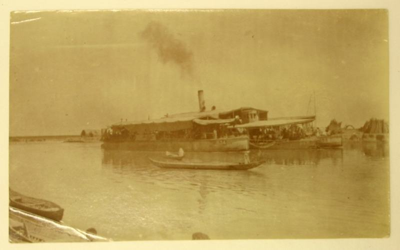 River Transport, Tigris, Iraq, World War I, 1916-1919